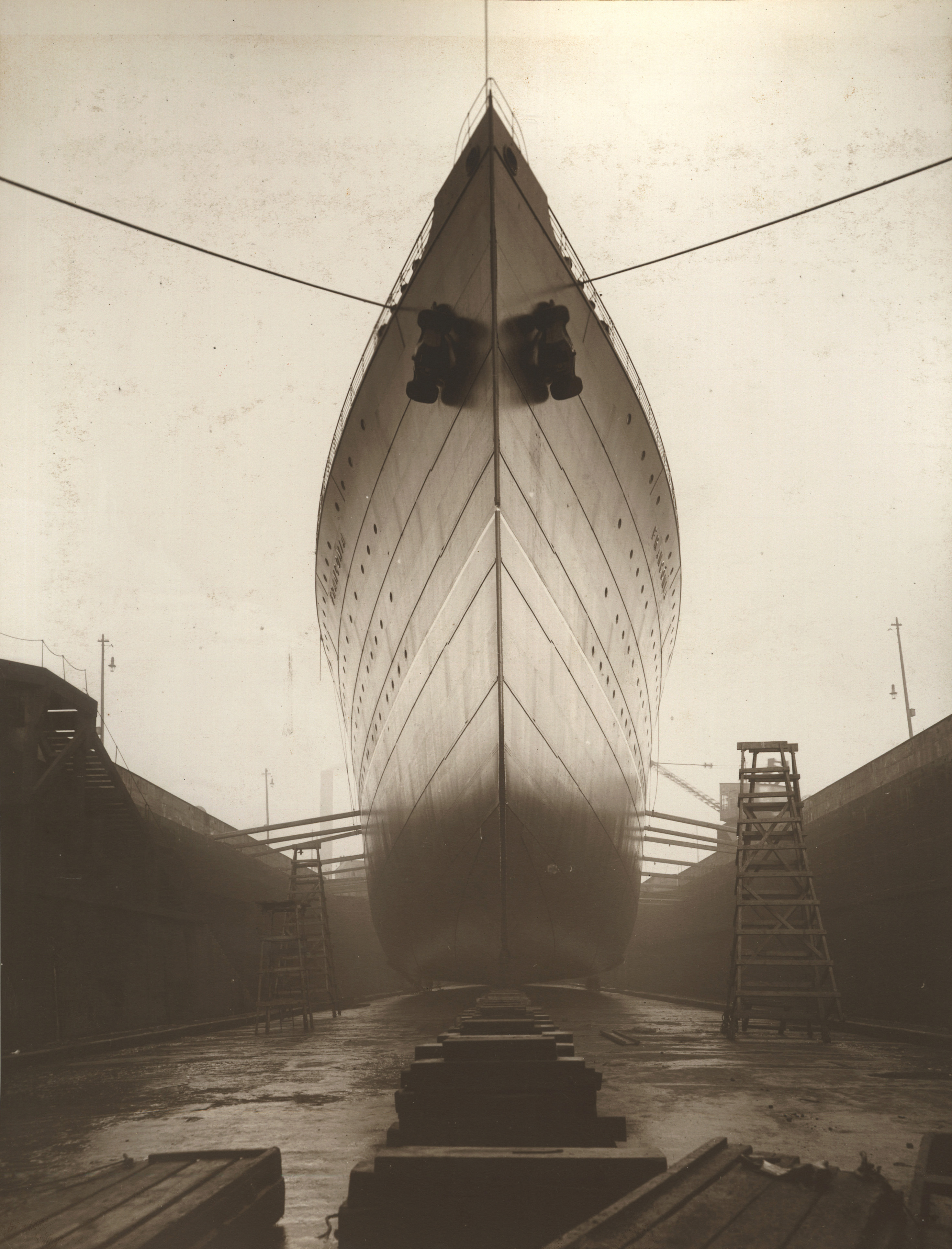 From the Flickr Commons, Tyne &Wear Archives and Museums They ist it as S.S. Franconia, though obviously it's RMS Franconia, which was launched in 1910 and sunk on October 4, 1915. The meta data on Flickr is: S.S.Franconia. Franconia in dock, bow view. Yard no's. 857, 877 Taken from the Swan Hunter and Wigham Richardson Ltd, Shipbuilders Collection Date: 1910-1911 Reference no. DS.SWH/4/PH/7/8 (pg 16) This photograph was selected by Paul Gibson as part of the 'Uncovering Archives Photography' Workshop held at Tyne and Wear Museums and Archives in November 2012. See Paul's response to this image here: Find out more about the project here: (Copyright) We're happy for you to share this digital image within the spirit of The Commons. Please cite 'Tyne & Wear Archives & Museums' when reusing.